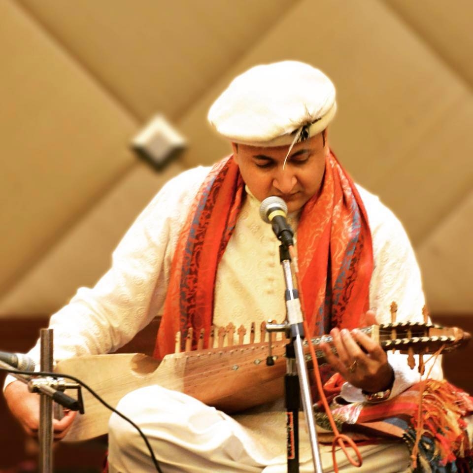 During Pakistan Day celebrations in Kuwait